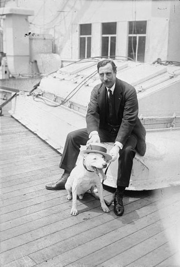 Ernest Schelling (1876 - 1939), American pianist, composer, and conductor